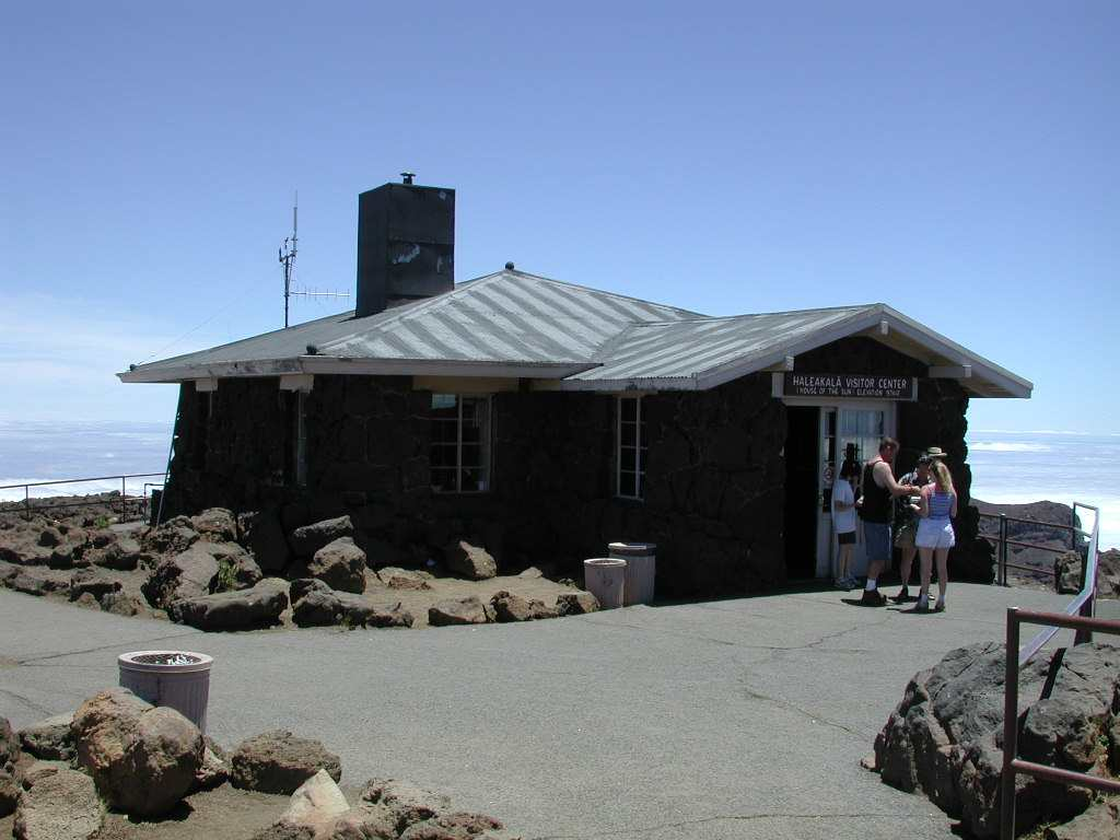 House of the Sun Visitor Center, Haleakala National Park, Maui, Hawaii, USA